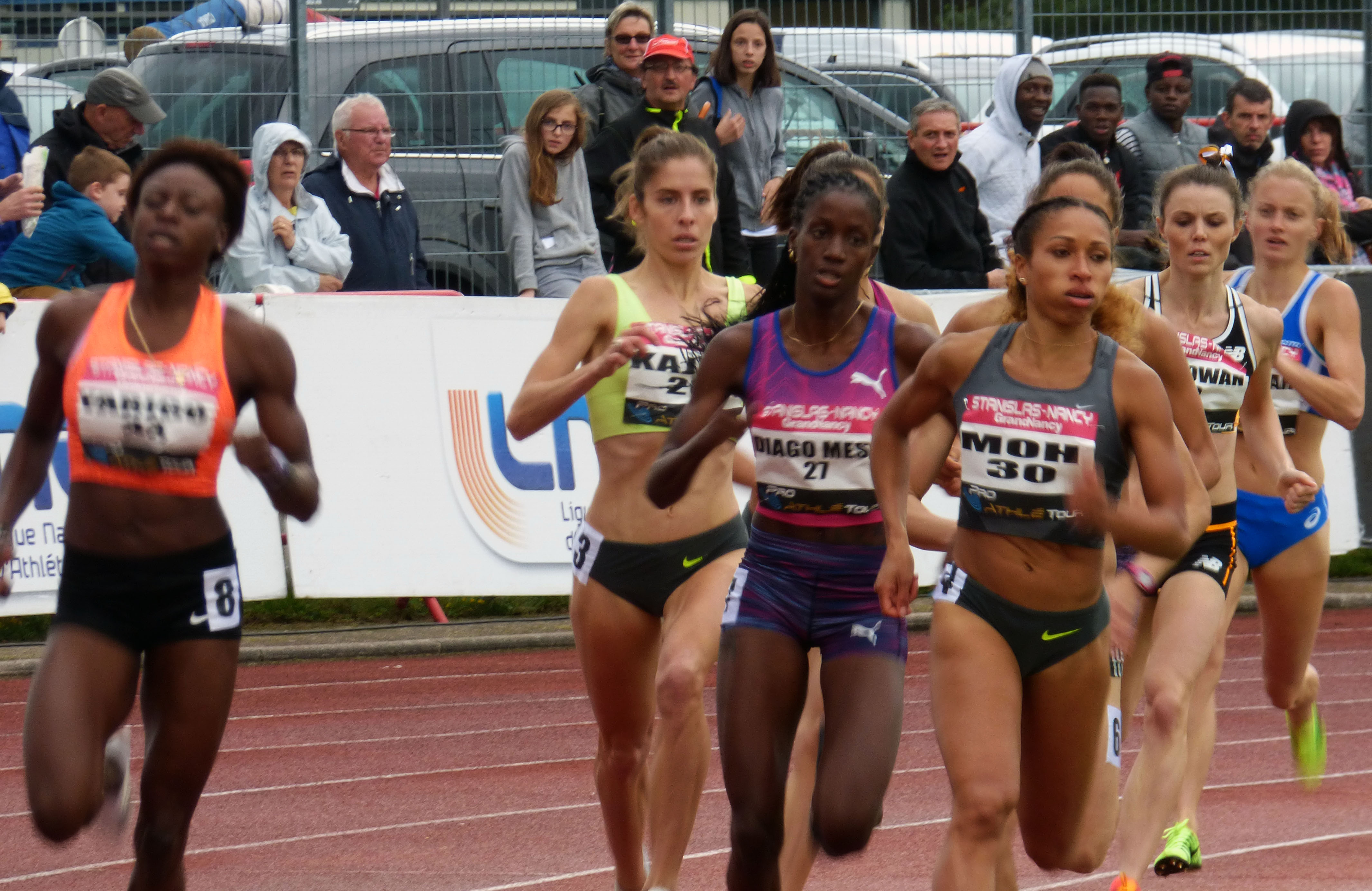 2016 Meeting Stanislas